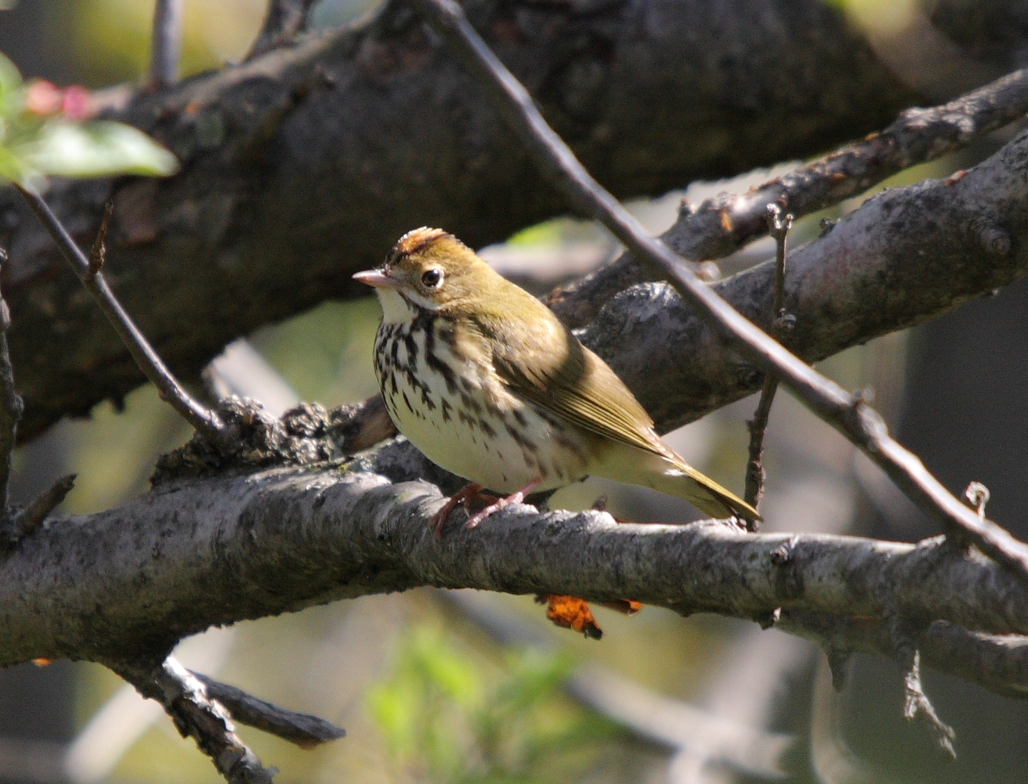 Ovenbird (Seiurus aurocapillus), Léon-Provancher marsh, Québec, Canada.